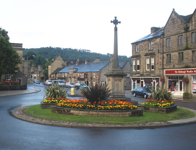 Floral roundabout, Bakewell